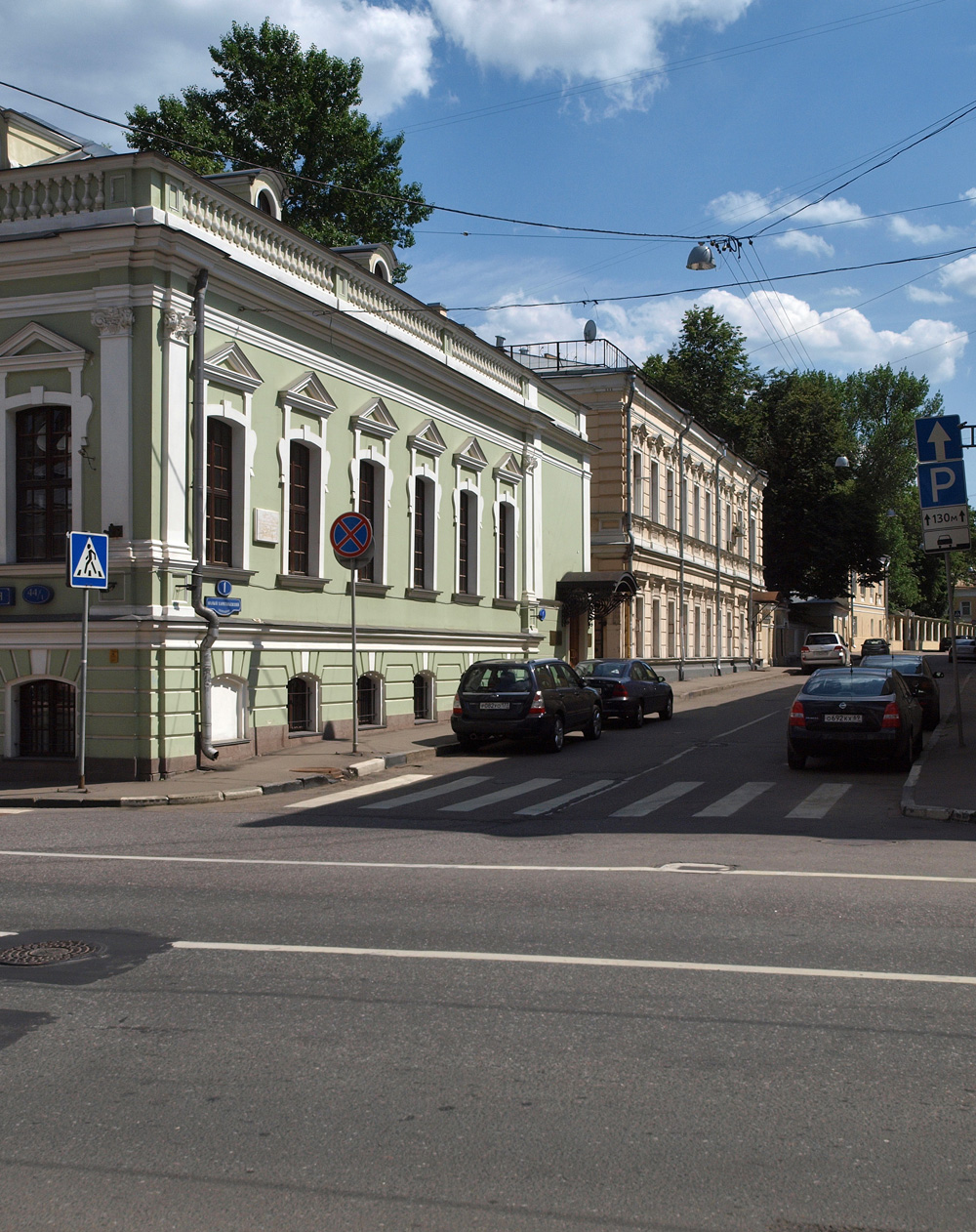 Maly Kharitonyevsky Lane, Moscow - corner of Myasnitskaya Street.